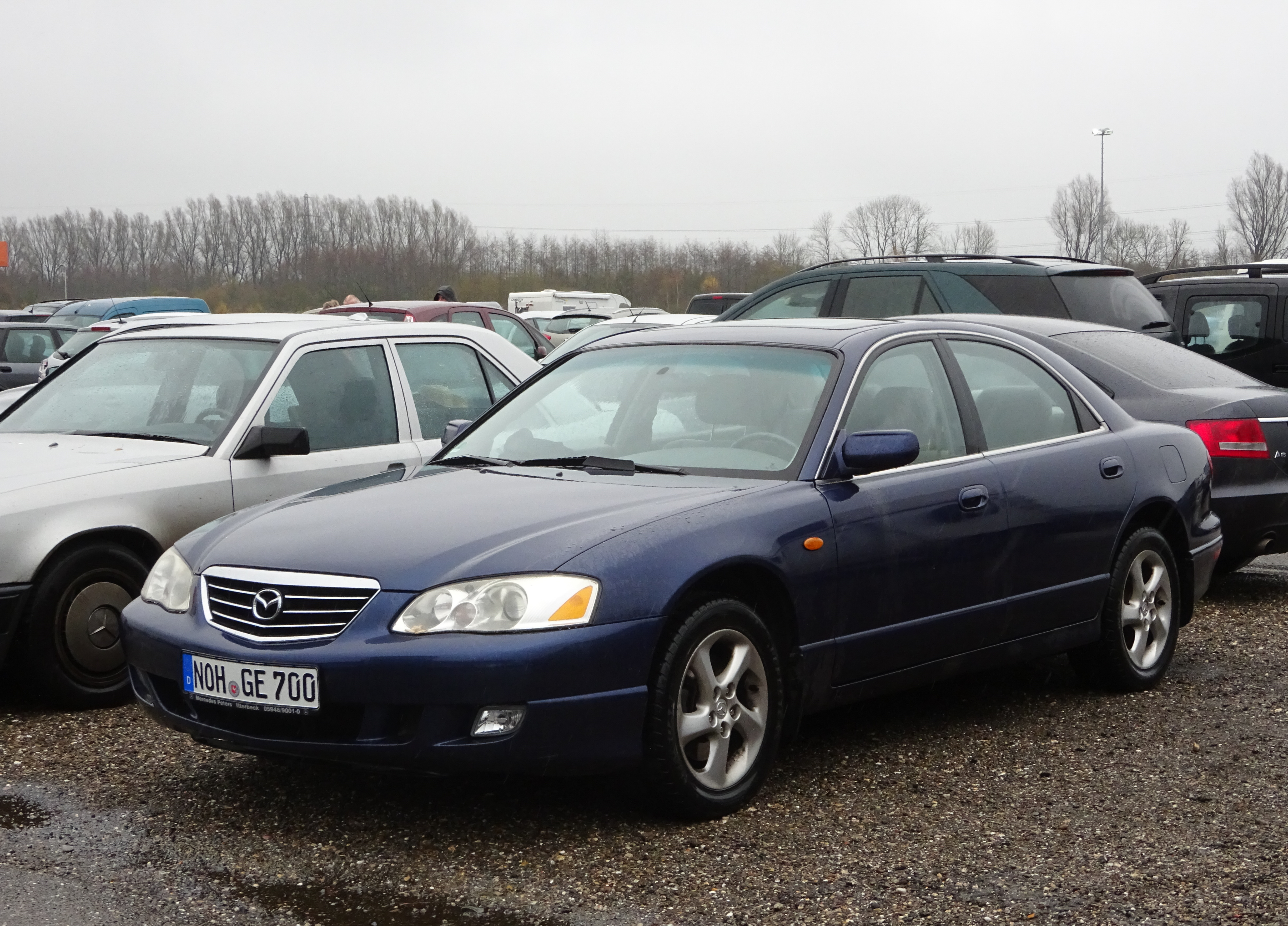 A 2001-2002 USDM Mazda Millenia in Germany